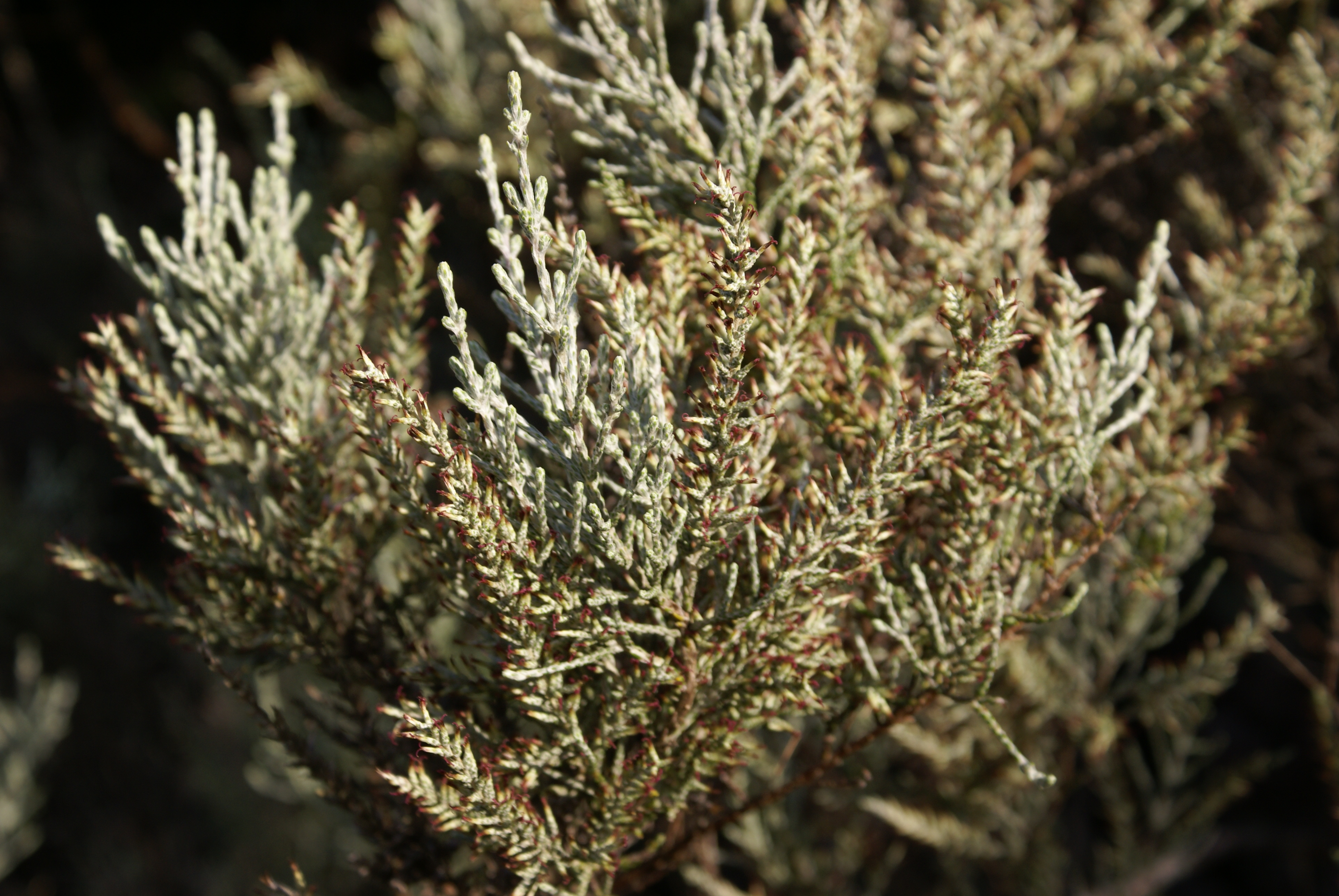 Flowering Stoebe passerinoides, species of heath-like shrub species belonging to the Asteraceae family, endemic to Réunion island.